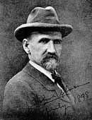 Photo of the sailor Joshua Slocum